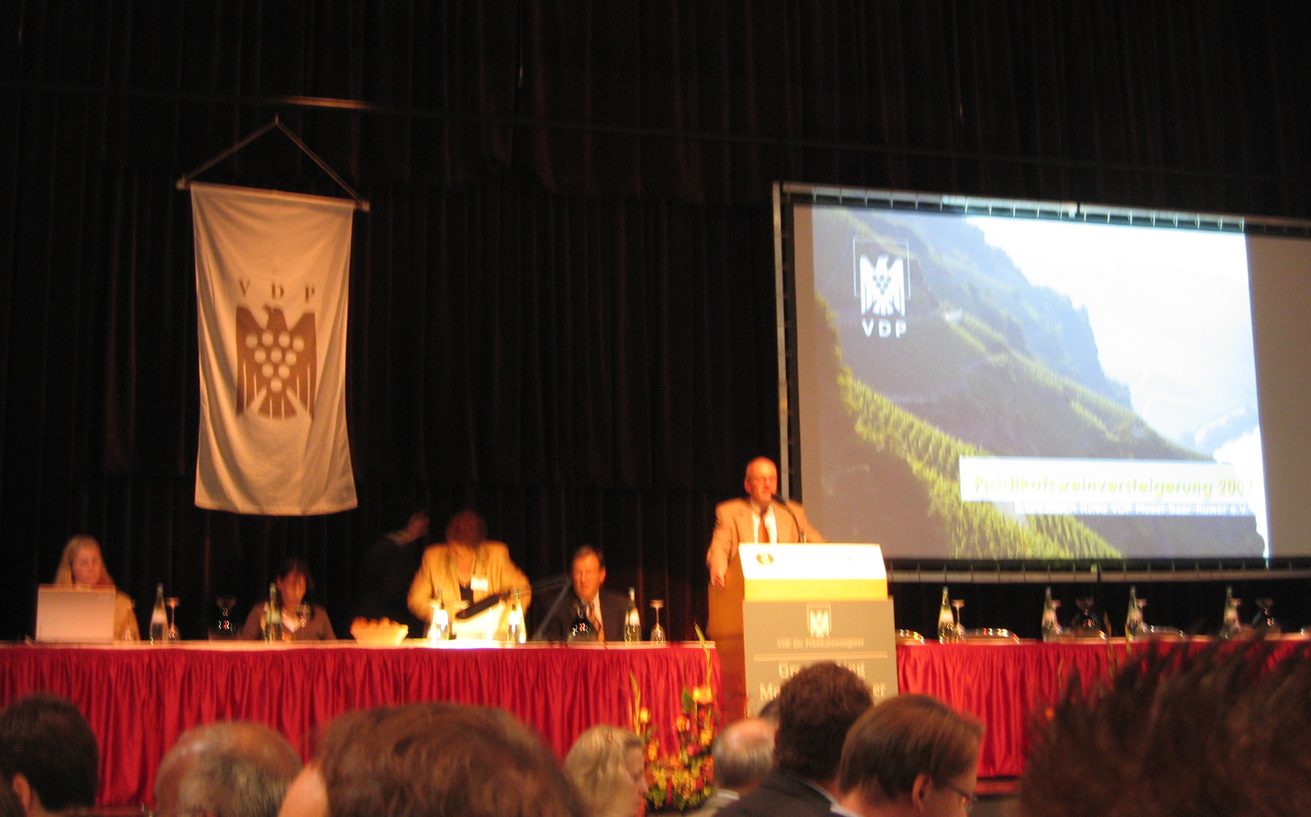 Chairman Egon Müller inaugurates the 2007 VDP Grosser Ring wine auction in Europahalle, Trier, Germany